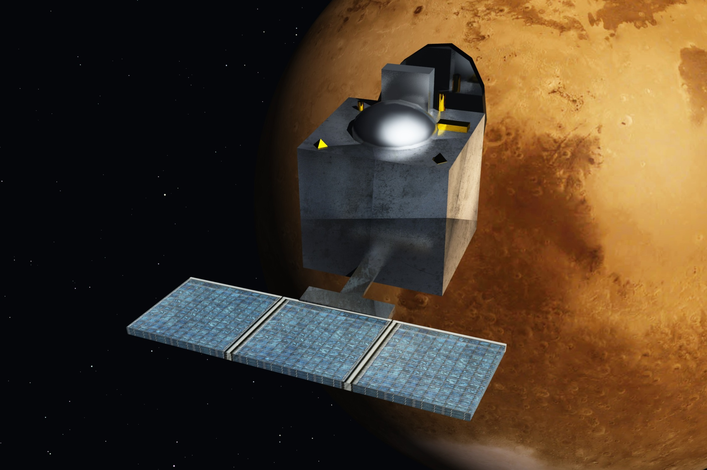 Mars-craft) is a Mars orbiter that was successfully launched on 5th November 2013 by the Indian Space Research Organisation (ISRO). This is a less than perfect artist's concept of the orbiter in orbit. I'm aware that the image is not 100% accurate, but I did attempt to emulate what the craft looks like. I thought a free-use image would be valuable to Wikipedia projects. If there is interest, I might come back and fine-tune this image to be more correct.